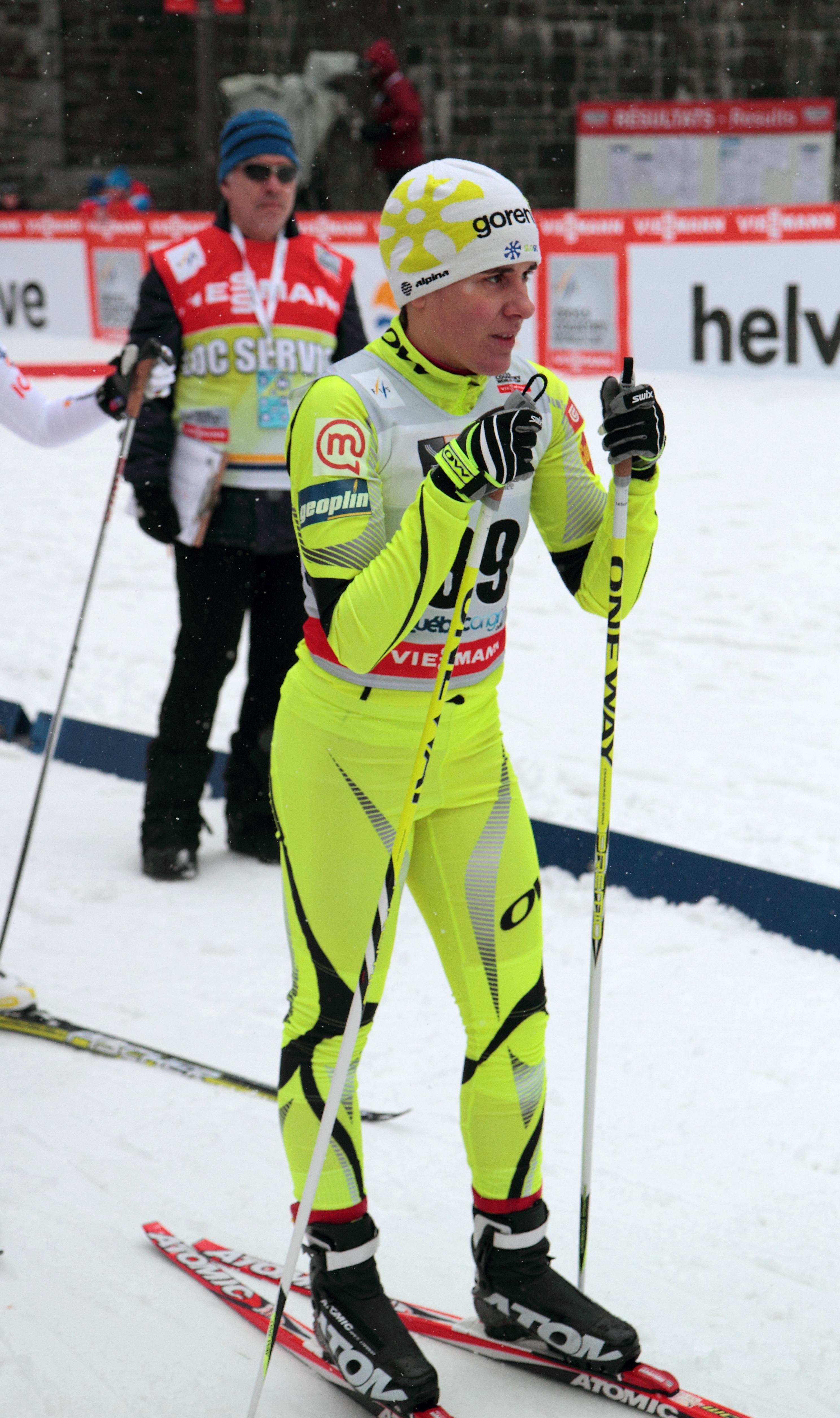 Barbara Jezersek, FIS Cross-Country World Cup 2012, Quebec, Canada.